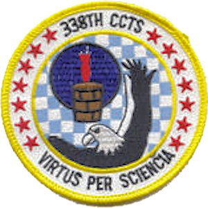 Emblem of the 338th Combat Crew Training Squadron (SAC)